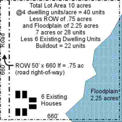 Charles A. Donley, AICP